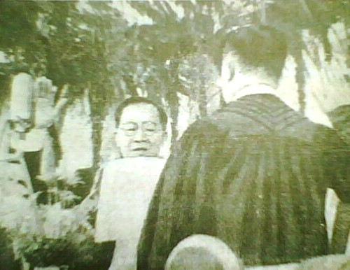 Jose P. Laurel is being sworn in as the President of the Japanese-sponsored Philippine Republic in 1943